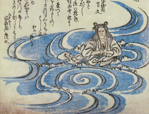 Hashihime (橋姫, the goddess of bridge) from the Kyōka Hyaku-Monogatari (狂歌百物語)